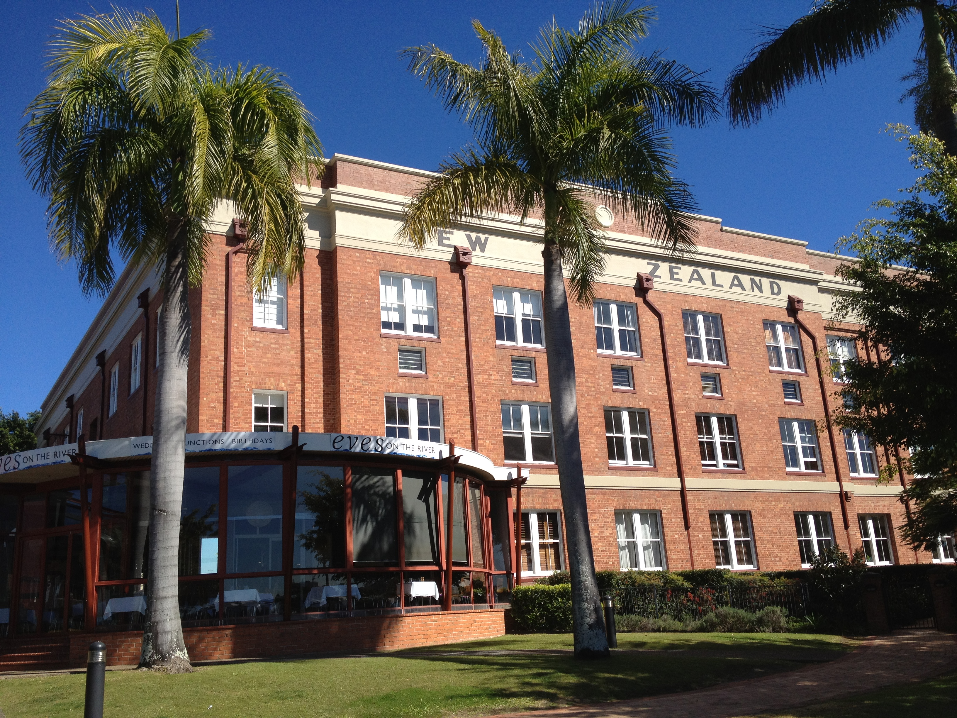 Teneriffe Woolstore Mactaggarts Place